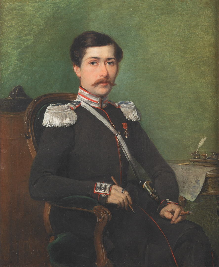 Tchernick Elisey Denisovich (1853, by N.A. Lavrov)